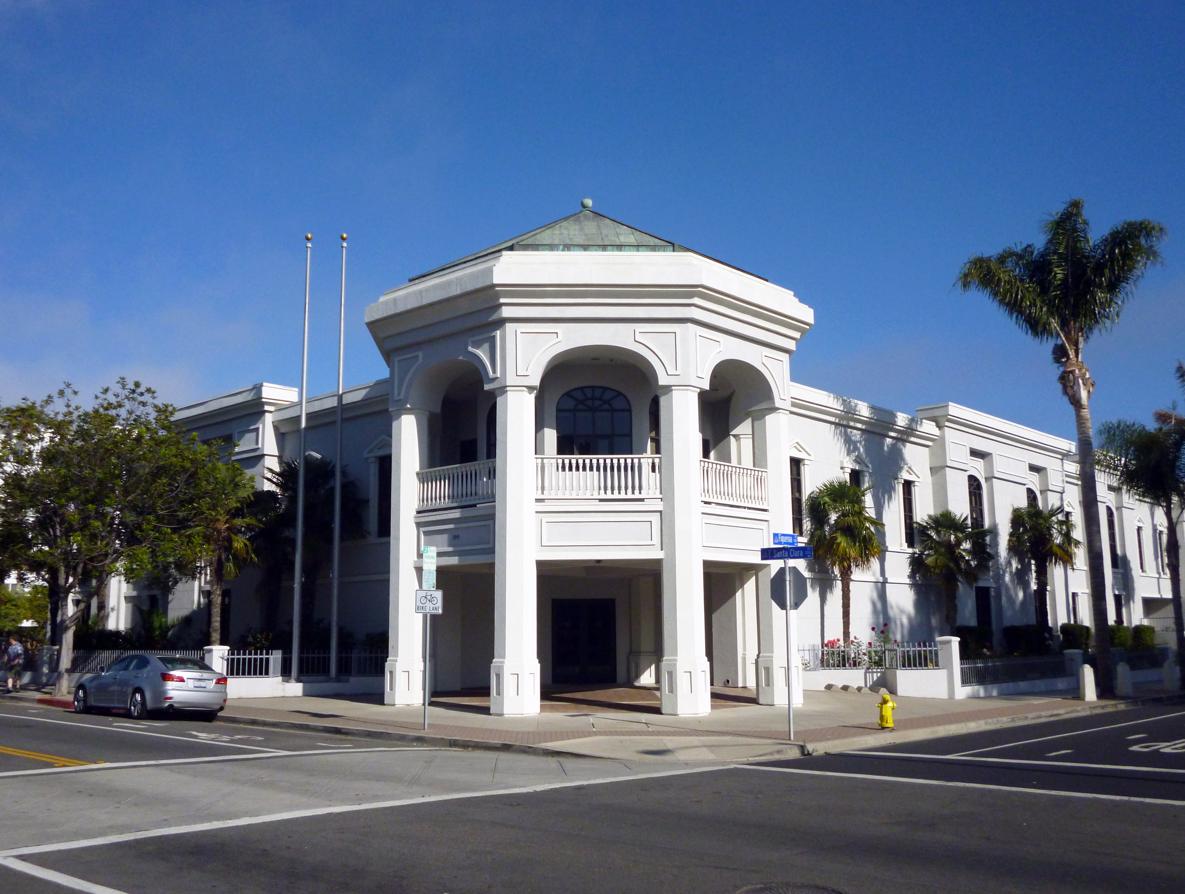 The courthouse of Division Six of the California Court of Appeal for the Second Appellate District in Ventura, California. Photographed by user Coolcaesar on July 7, 2012.